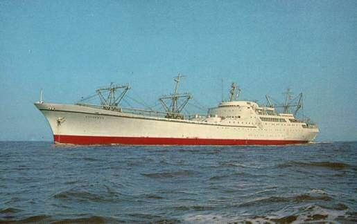 Nuclear Ship (N/S) Savannah. Built as a prototype passanger and merchant ship, she was supposed to precede a whole era of nuclear powered sea travel. Due to public anxieties this was never realised, though, except in military seafaring.